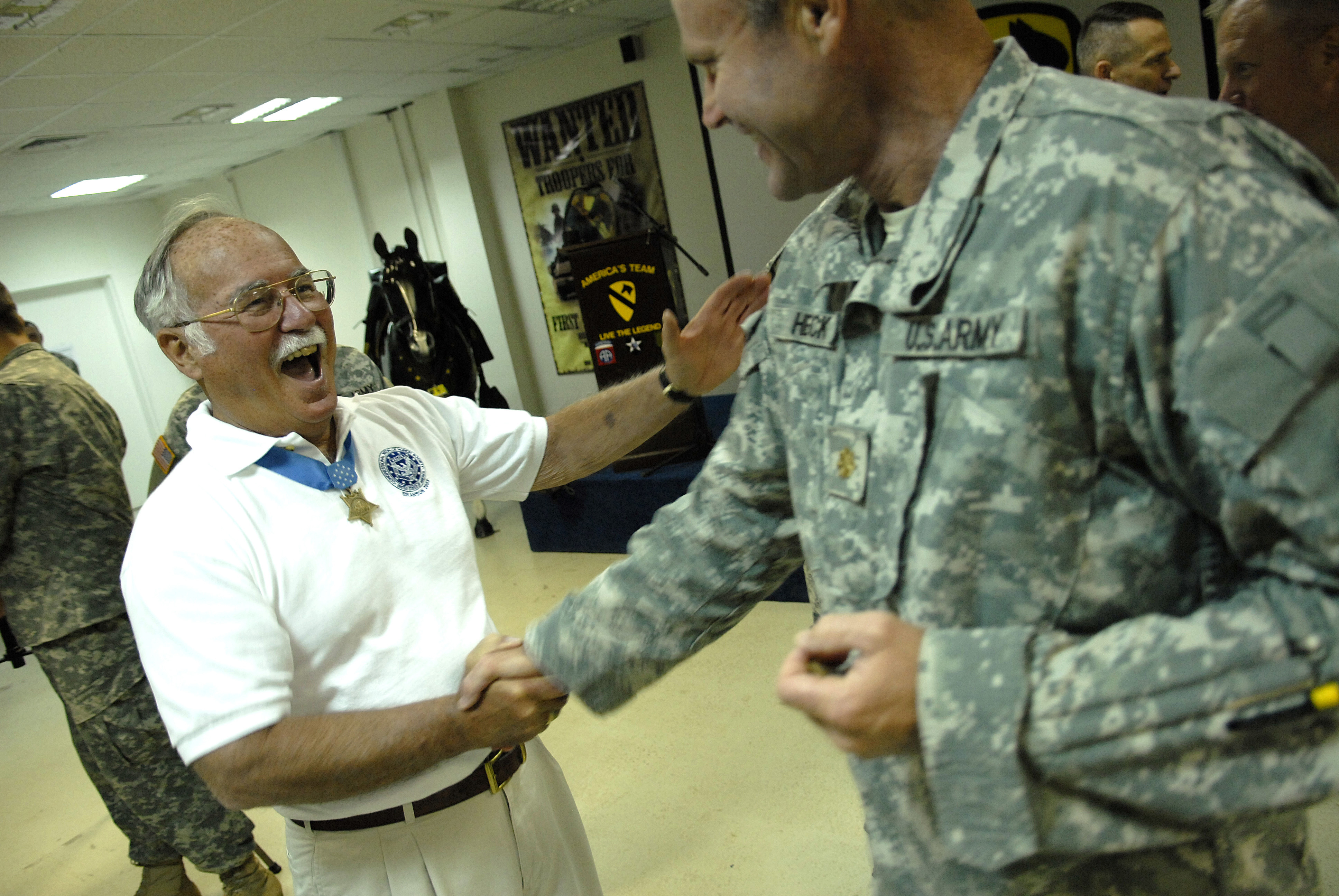 Retired Medal of Honor recipient Marine Col. and deputy Assistant Secretary of the Navy Barney Barnum thanks a U.S. Army Soldier from the 1st Cavalry Division for their service at Camp Liberty, Iraq, during a visit with Chairman of the Joint Chiefs of Staff Marine Gen. Peter Pace.